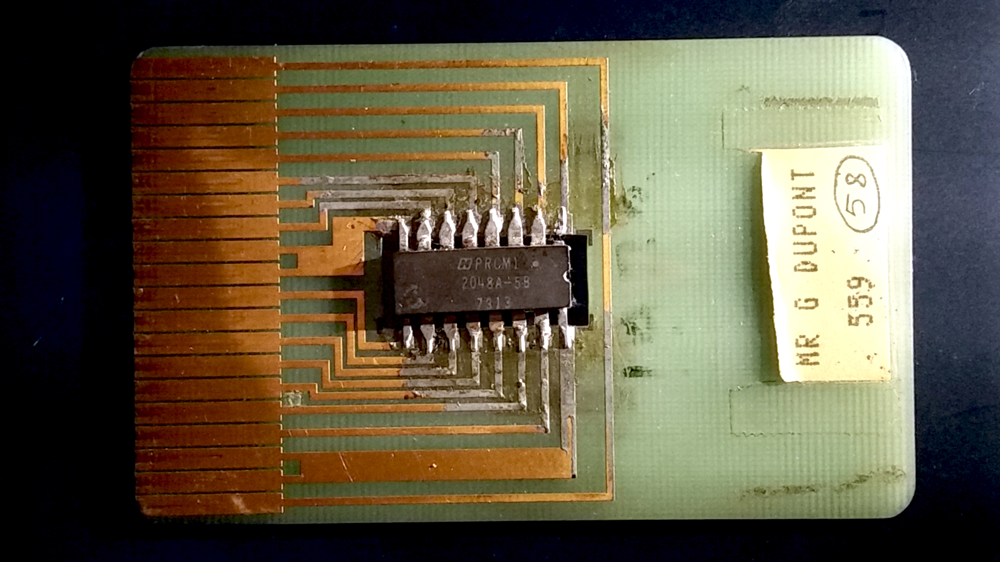 One of the first prototype of smart card, realized by its inventor Roland Moreno circa 1975.